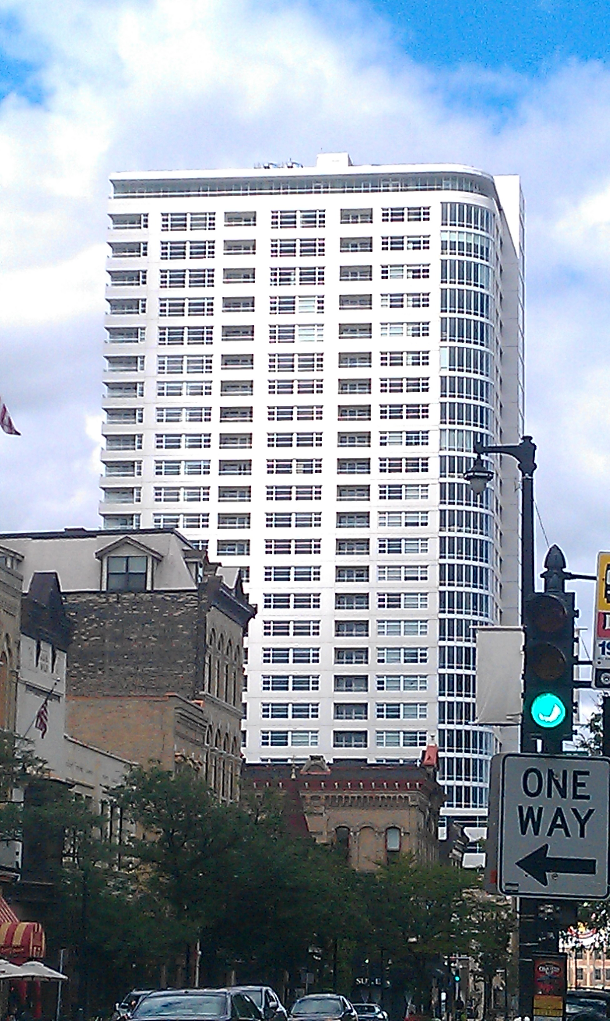 The Moderne towers over all other buildings west of the Milwaukee River.